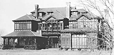 Idle Hour, the Alva and William K. Vanderbilt estate in Oakdale, Long Island, New York. This first mansion was designed by Richard Morris Hunt under the direction of Alva Vanderbilt. It burned in 1899. It was replaced by a new fireproof mansion in 1901, designed by the firm of Hunt's sons, that is part of Dowling College today.